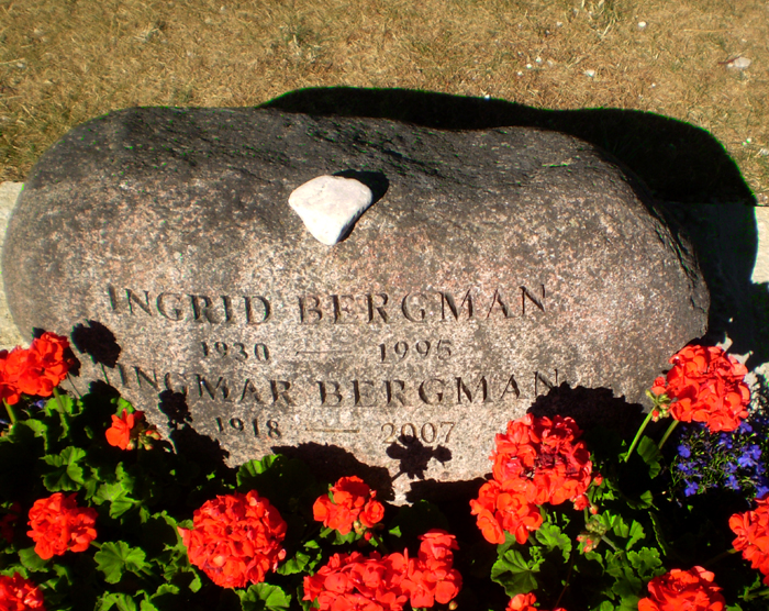 In the graveyard of FÅRÖ CHURCH..... Swedish filmmaker Ingmar Bergman lived and died on Fårö, and several of his movies were filmed here, among them Through a Glass Darkly (1961), Persona (1966), Hour of the Wolf (1968), Shame (1968), The Passion of Anna (1969), and Scenes From a Marriage (1972; filmed at the home of his ex-wife)]. The Bergman Festival is a weeklong tribute to the filmmaker held on the island every June. Andrei Tarkovsky's The Sacrifice was also filmed on Fårö.